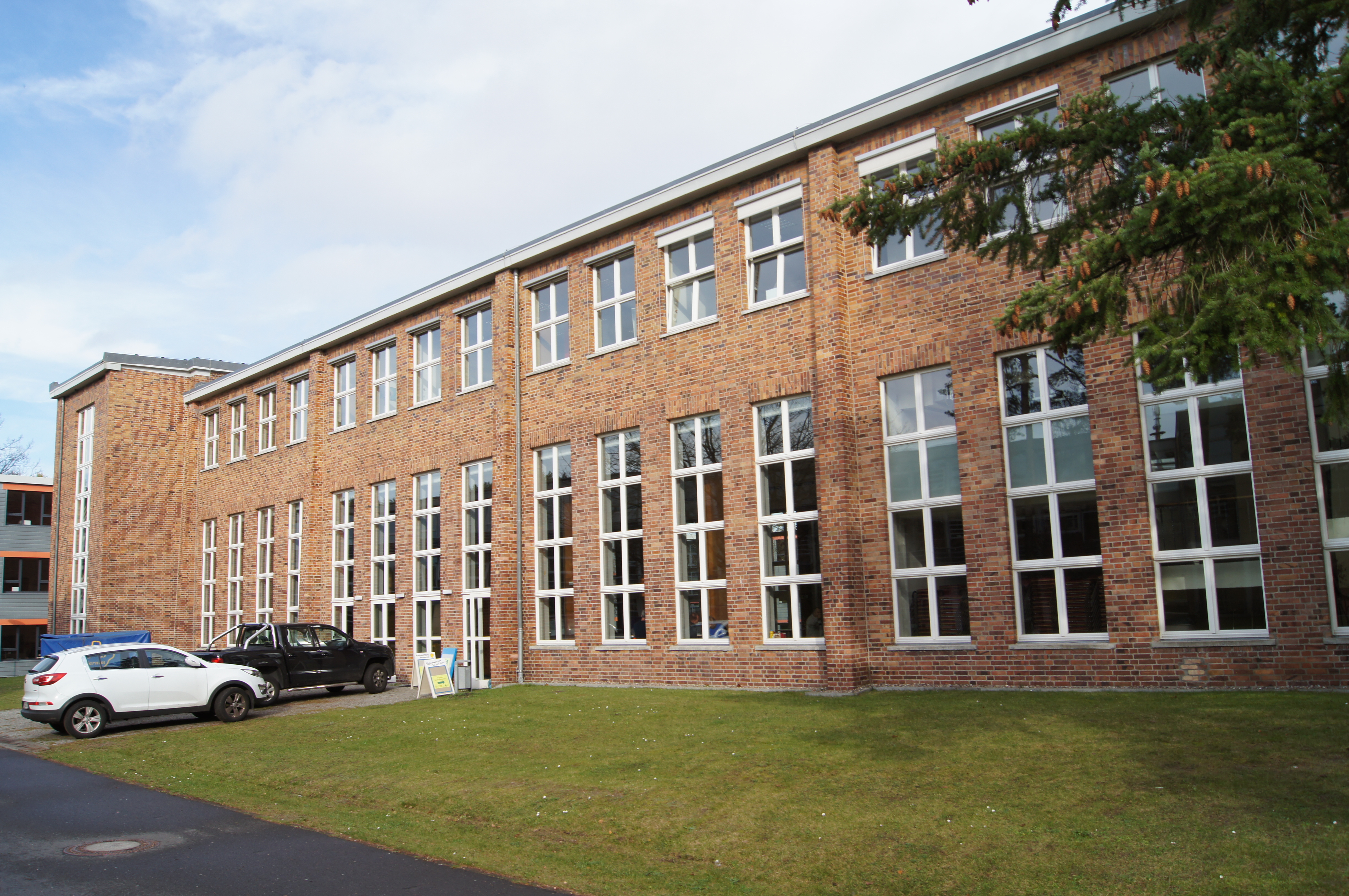 ADGB School Bernau, Brandenburg, Germany